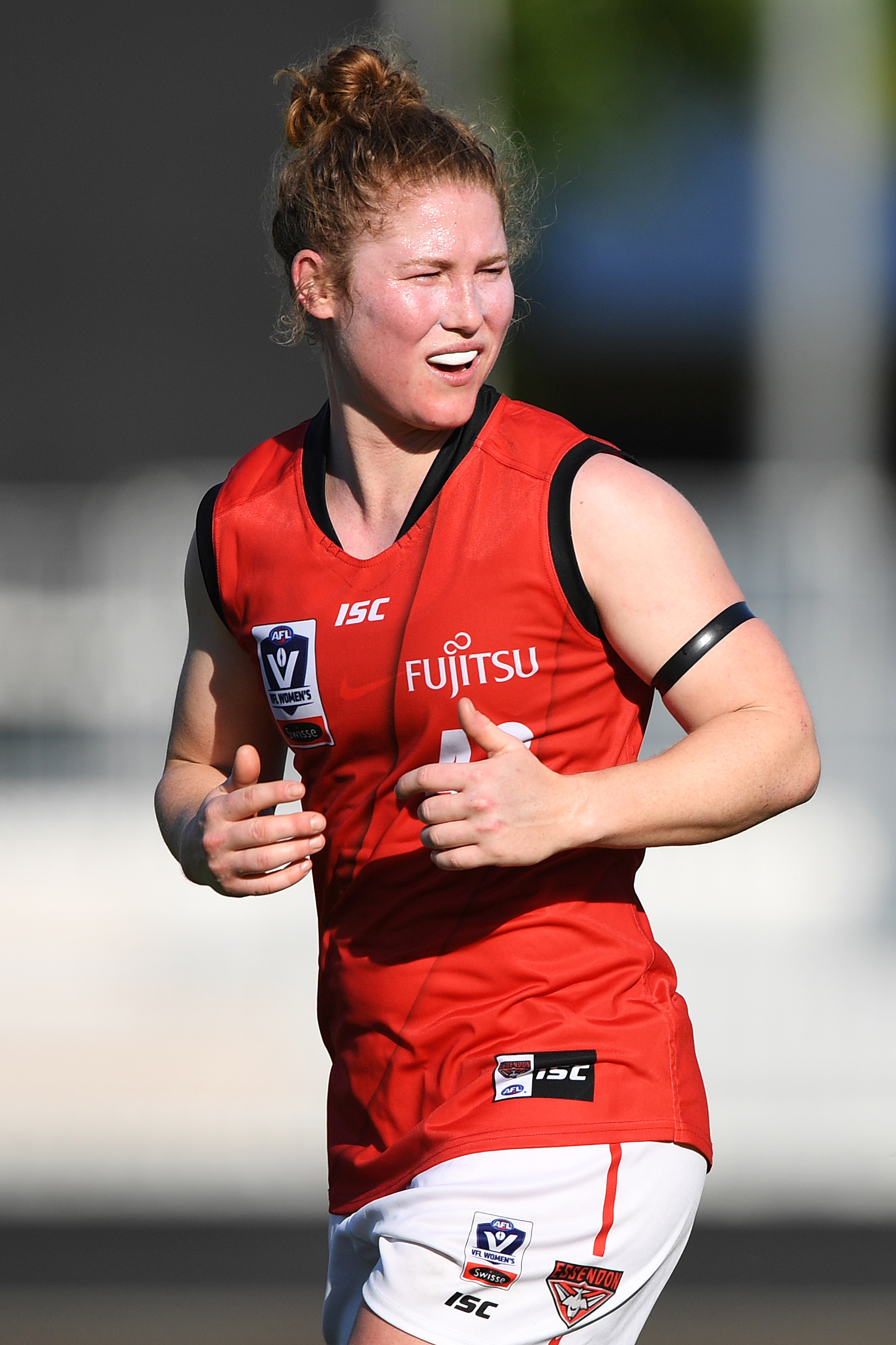 Georgia Nanscawen of Essendon during the 2019 VFLW Round 7 match between NT Thunder and Essendon at TIO Stadium on 22 June 2019 in Darwin, Australia.